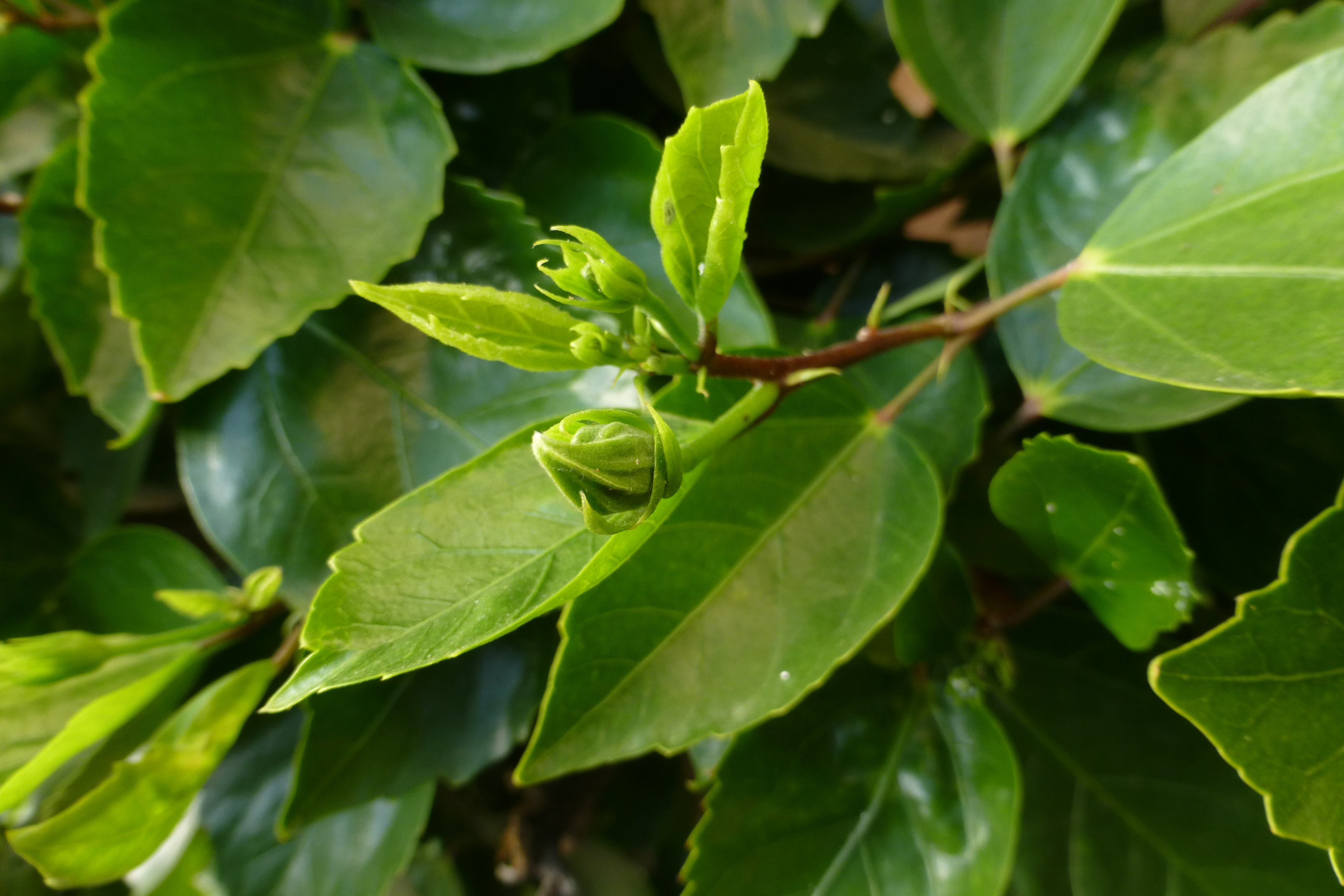 Ramat Gan Leaves